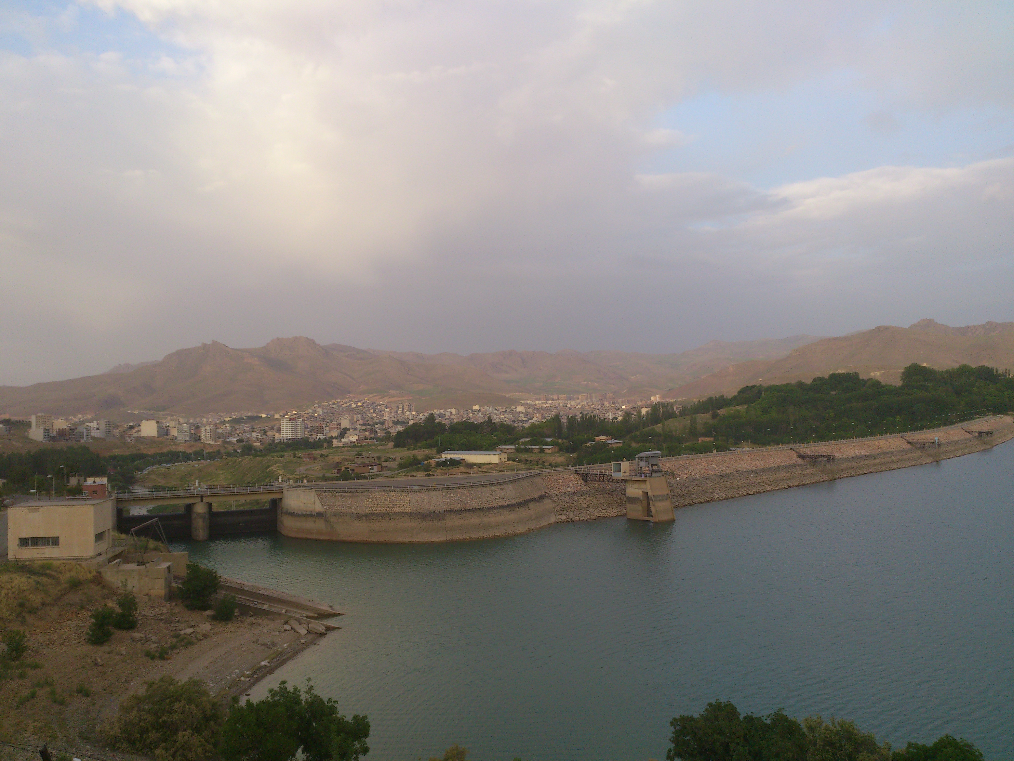 mahabad damKurdî: بەنداوی مەهاباد